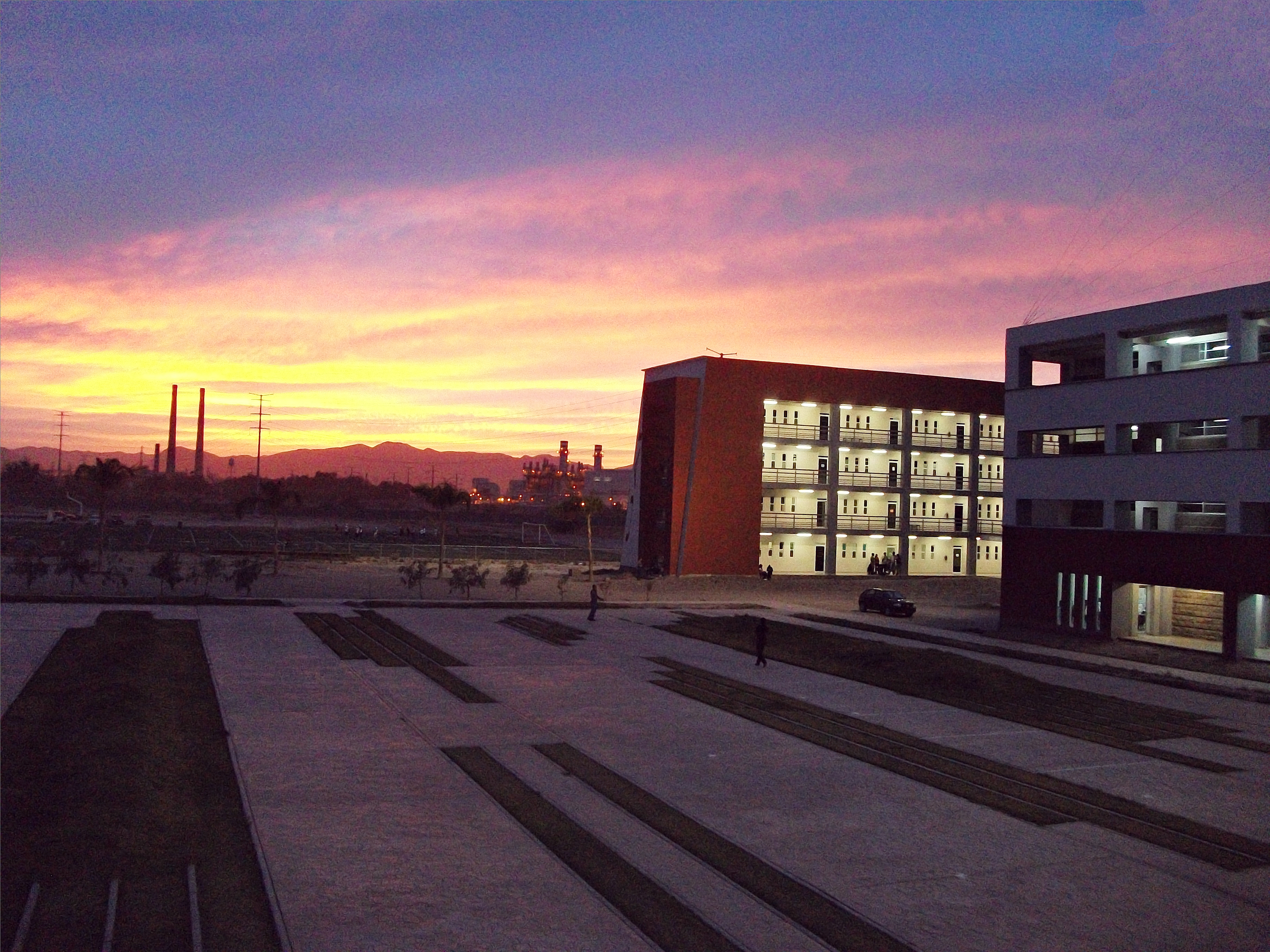 universidad